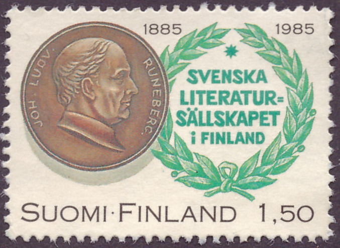 Stamp emitted to the 100th anniversary of the Swedish Society of Literature in Finland.